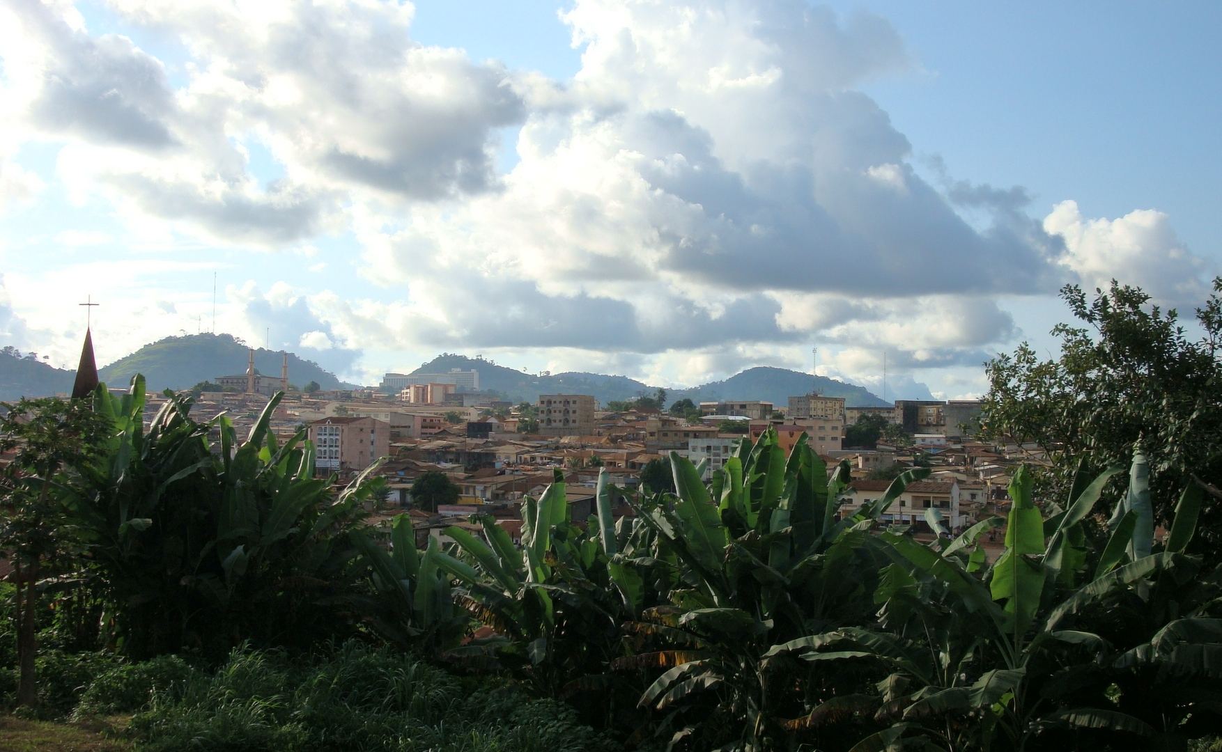 The "Briqueterie" neighborhood in Yaoundé as seen from Central Hospital/Pasteur neighborhood.